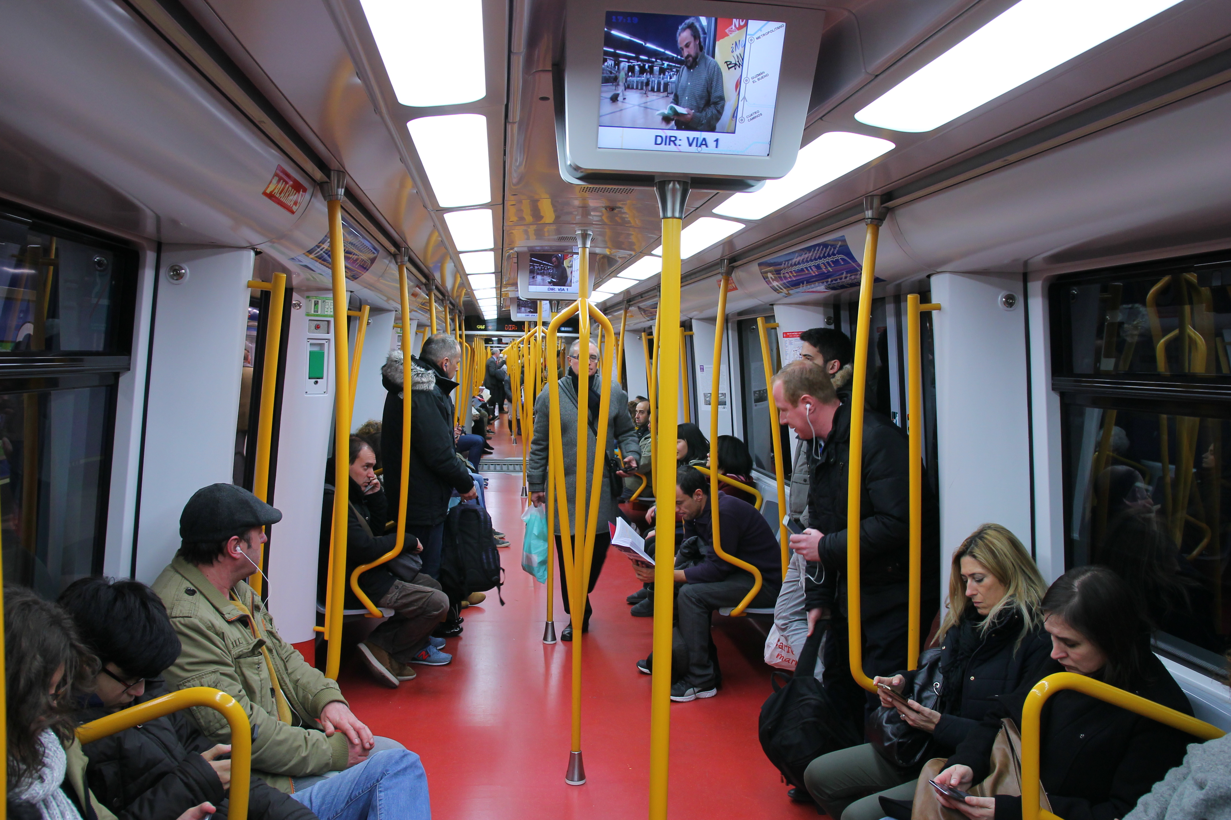 Series 8400 of Metro Madrid